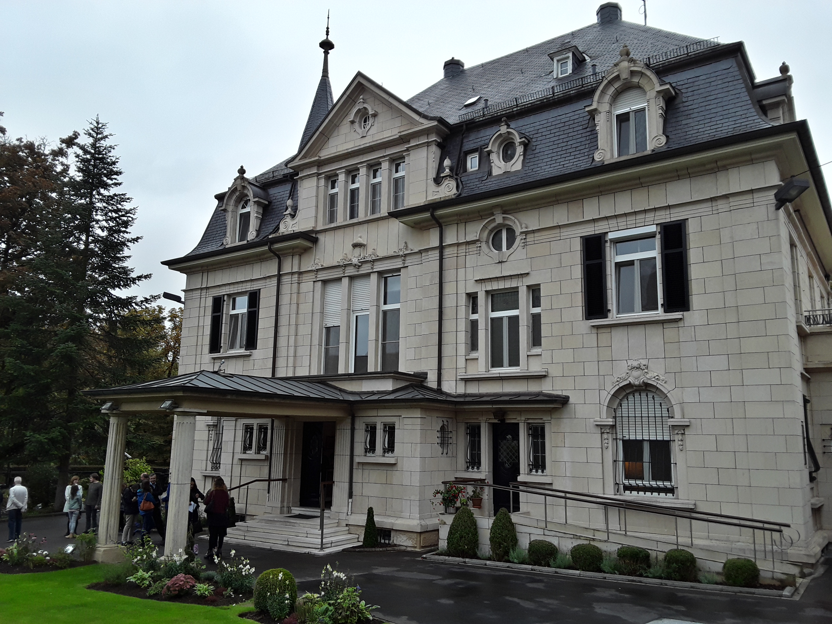 Embassy of the United States in Luxembourg - the Ambassador's Residence